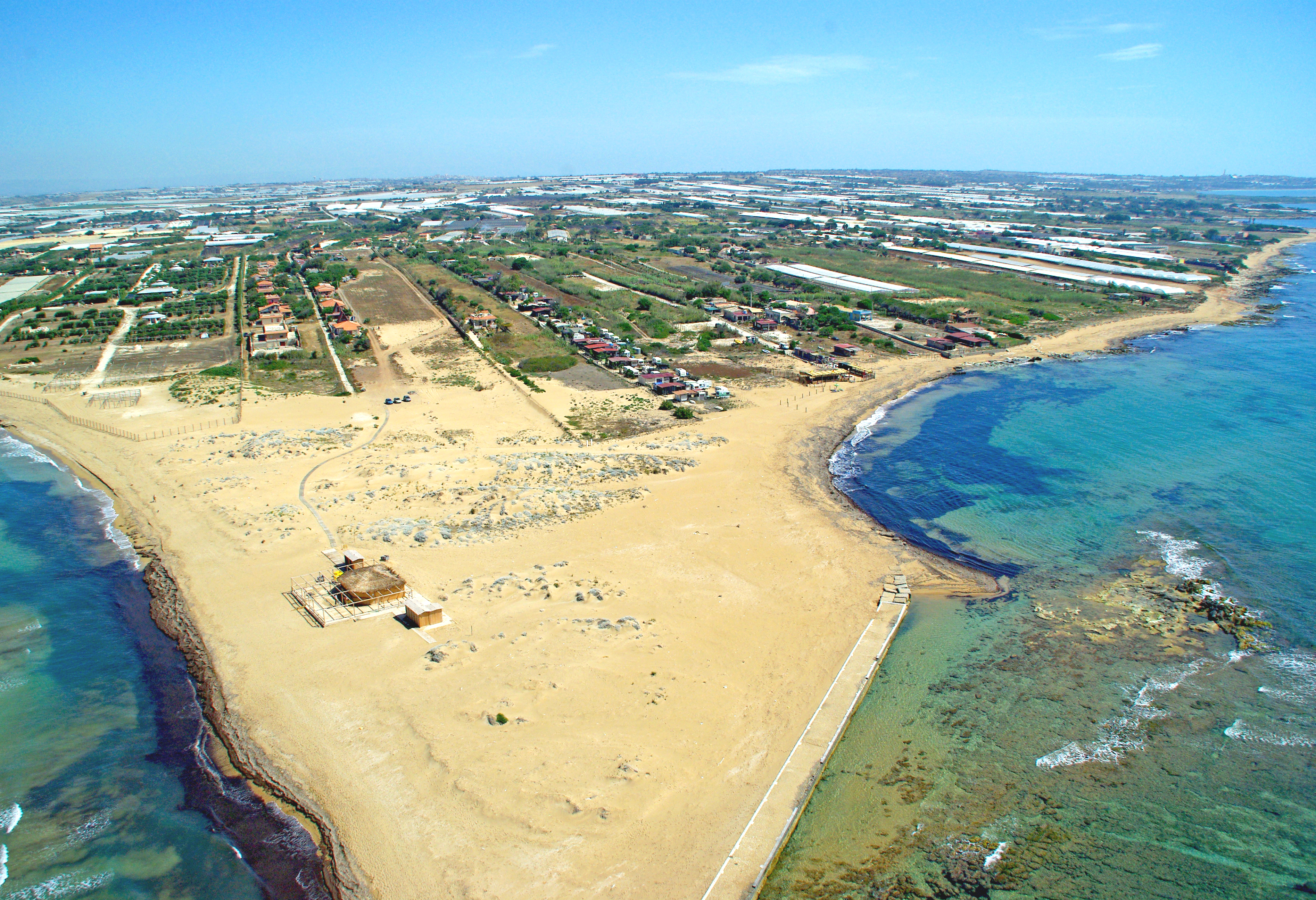 Portopalo, Sicily, Italy